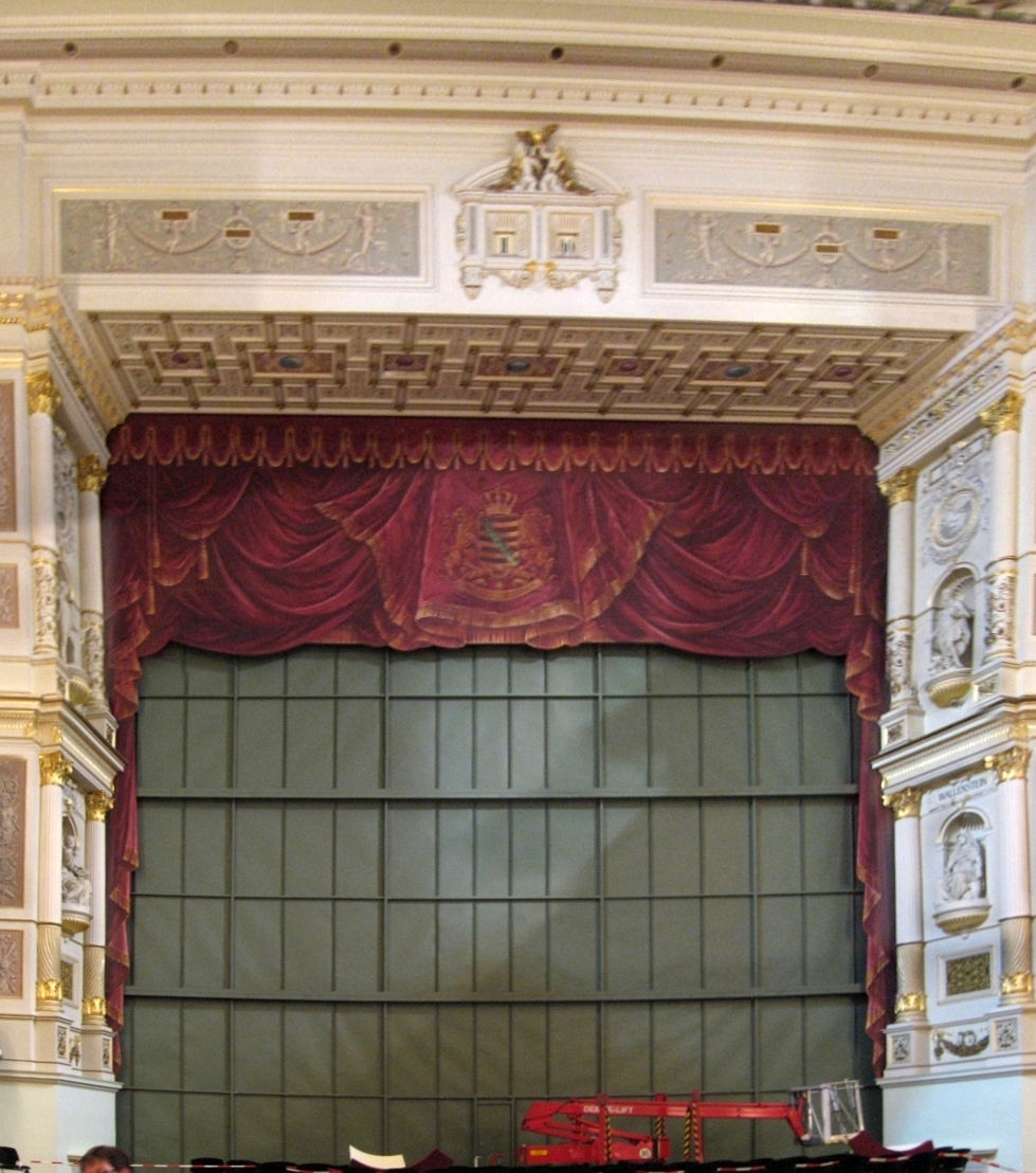 Interior of the Semperoper in Dresden.